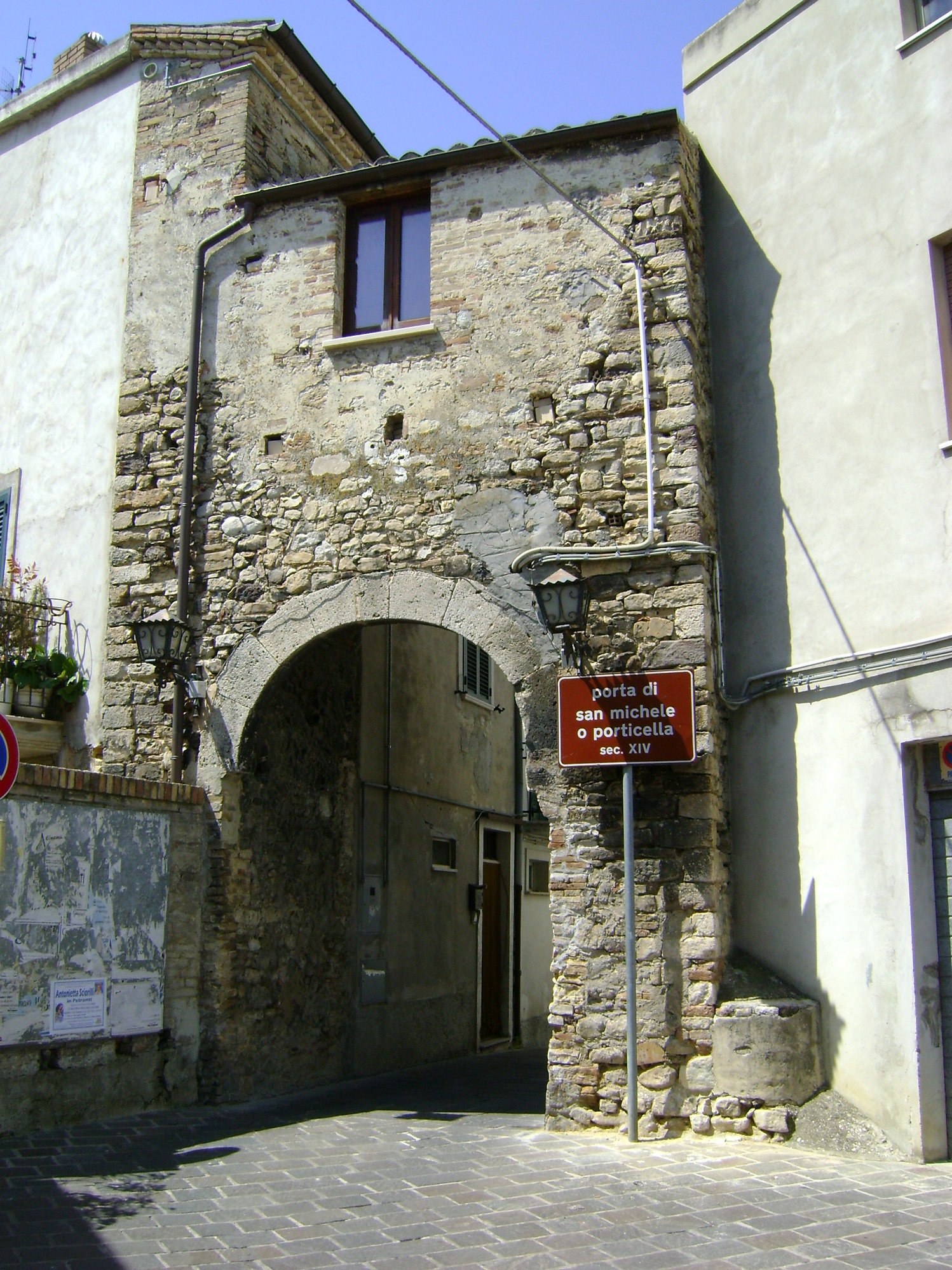 The door of St. Michael, Atessa, province of Chieti, Abruzzo